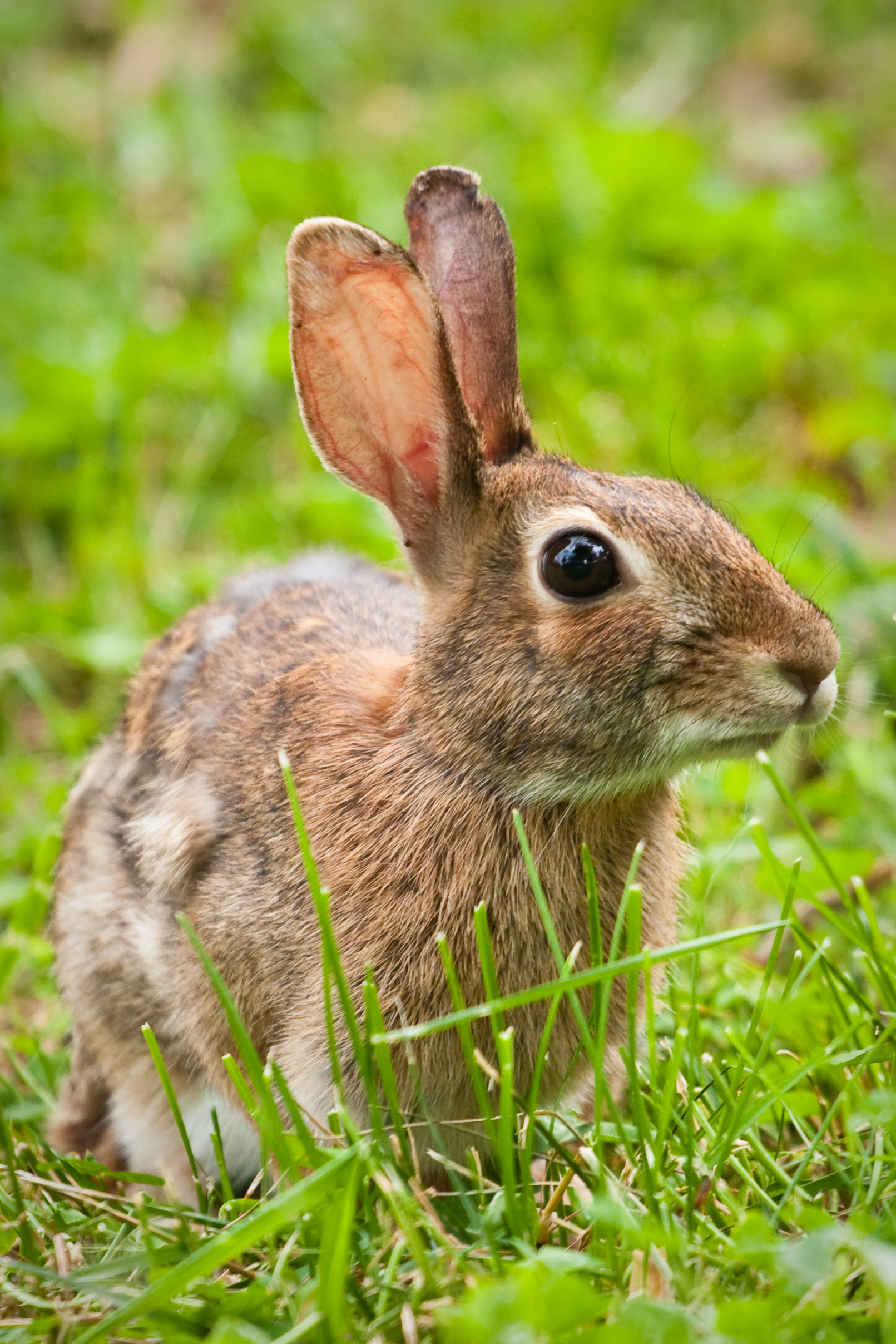 Rabbit Portrait